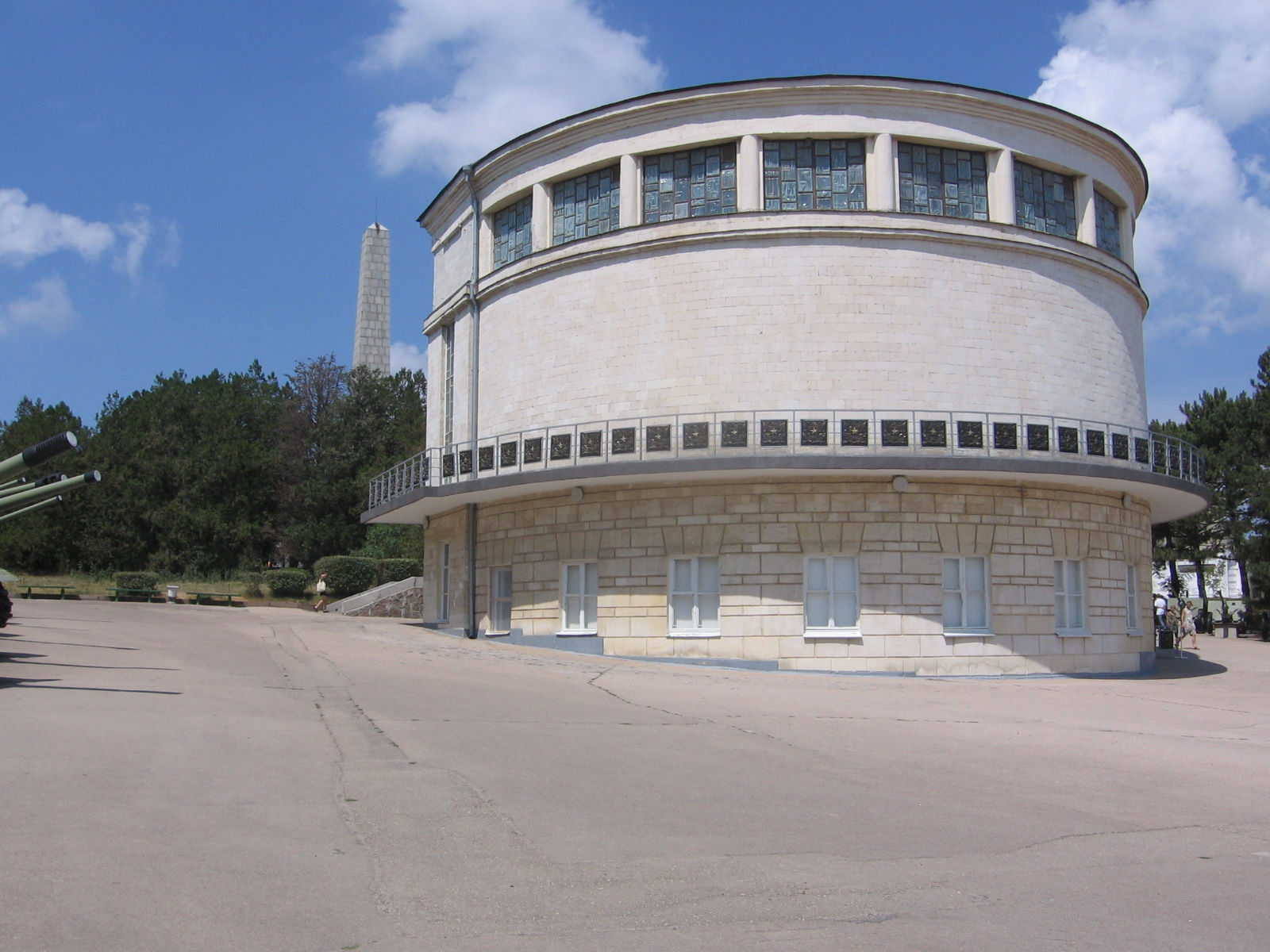 Building of the museum-diorama "Storm of Sapun Mountain on May 7, 1944" on Sapun Mountain in Sevastopol. Constructed on a project by V.P.Petropavlovsky in 1959. Opened on November 4, 1959.